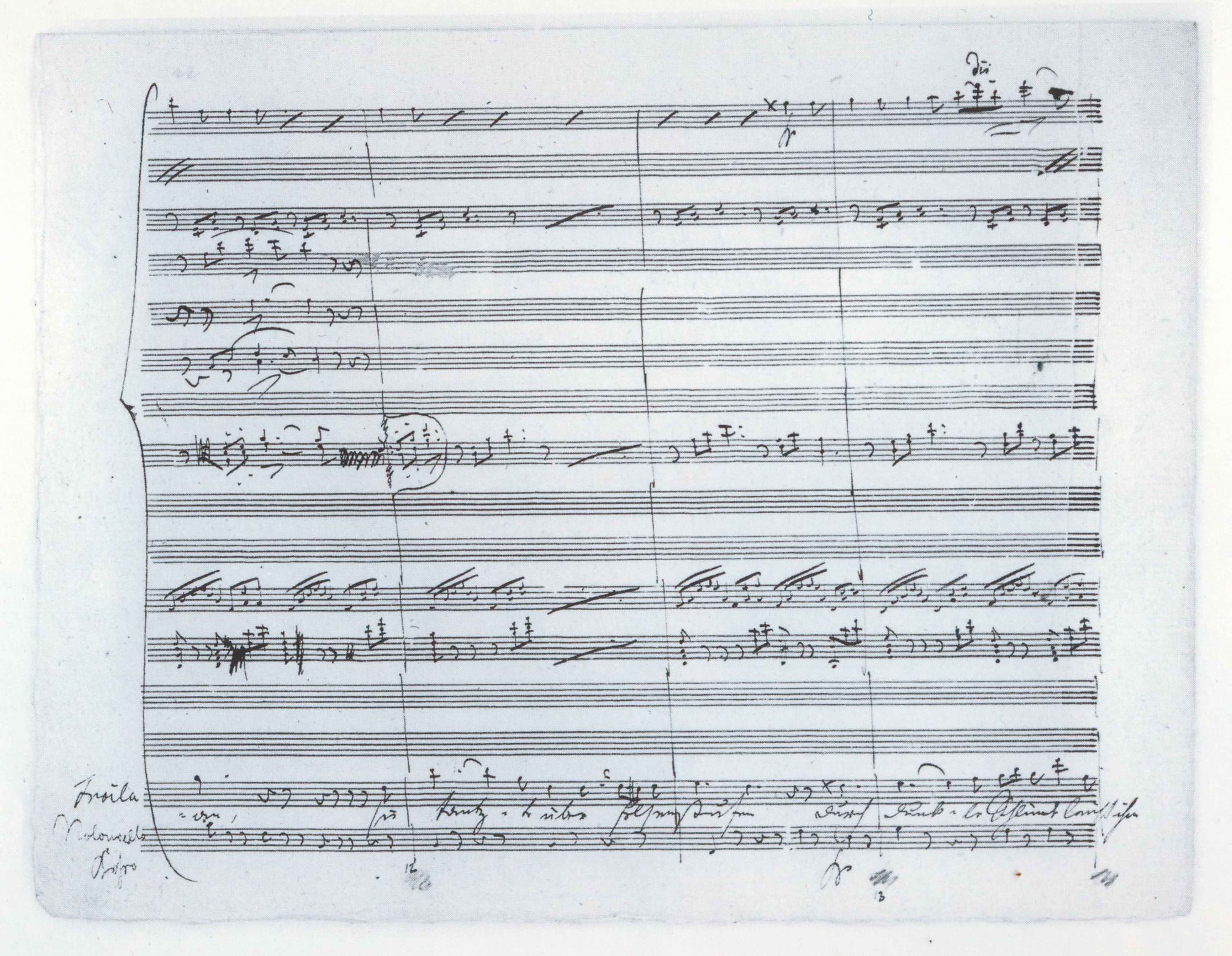 Autograph from Franz Schubert's opera Alfonso und Estrella D 732, Aria No. 11 (1821/22). Schubert later used parts from this aria in his song Täuschung from Die Winterreise D 911 (1827).